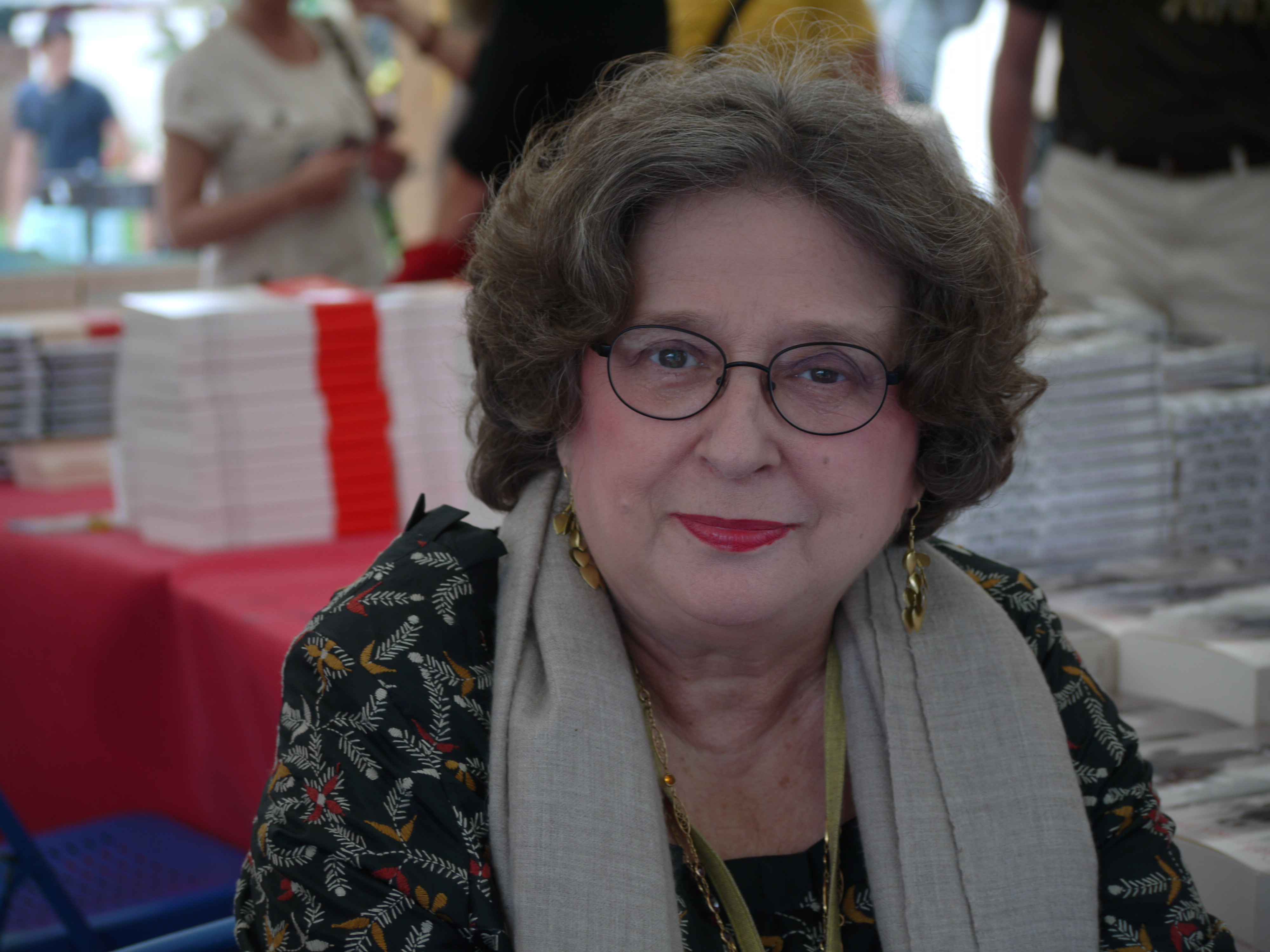 Photograph taken during the 2009 edition of the 'Comédie du Livre' of Montpellier, France. Personality rights warningAlthough this work is freely licensed or in the public domain, the person(s) shown may have rights that legally restrict certain re-uses unless those depicted consent to such uses. In these cases, a model release or other evidence of consent could protect you from infringement claims.